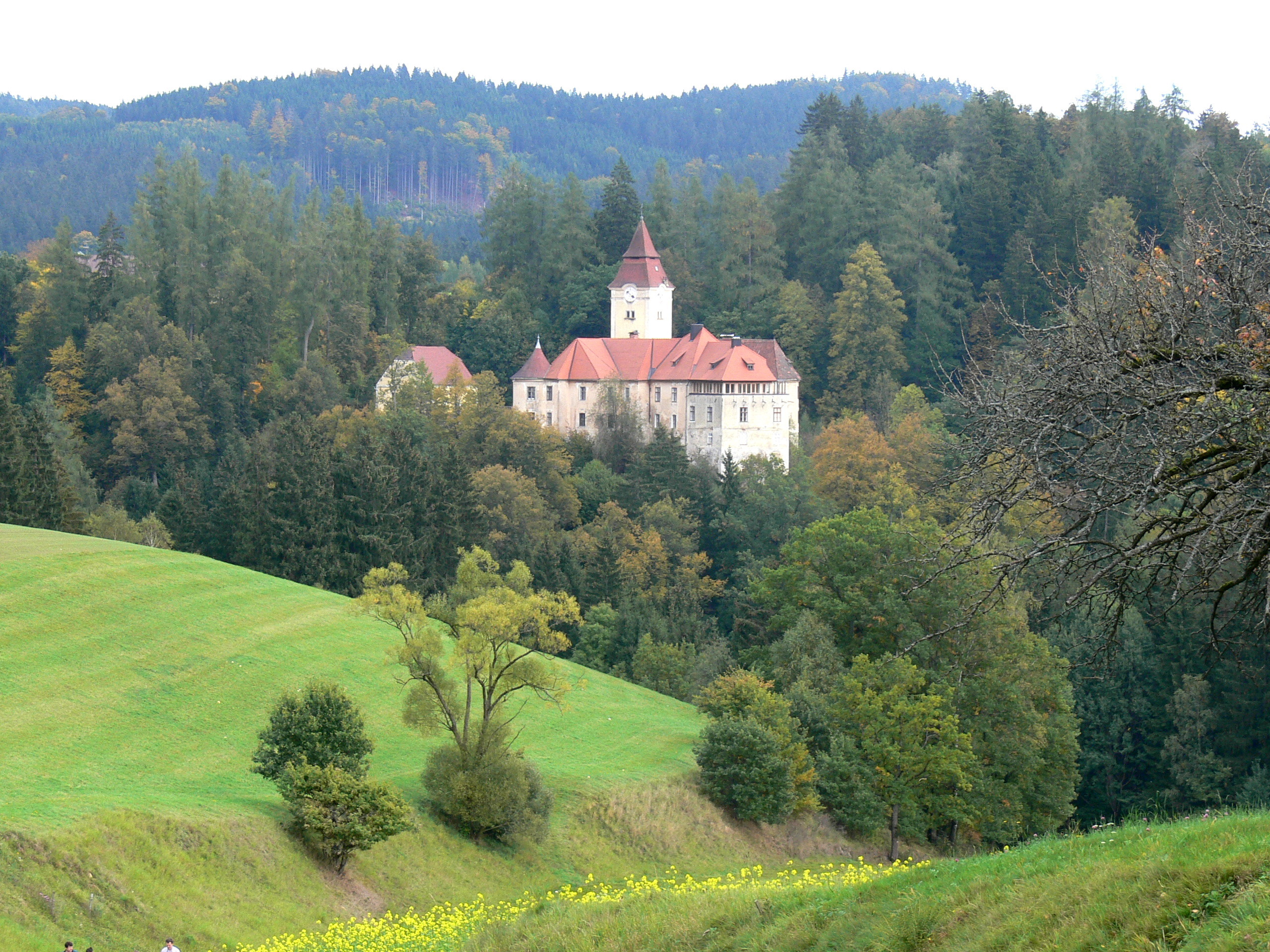 Sprinzenstein castle. View from Meising